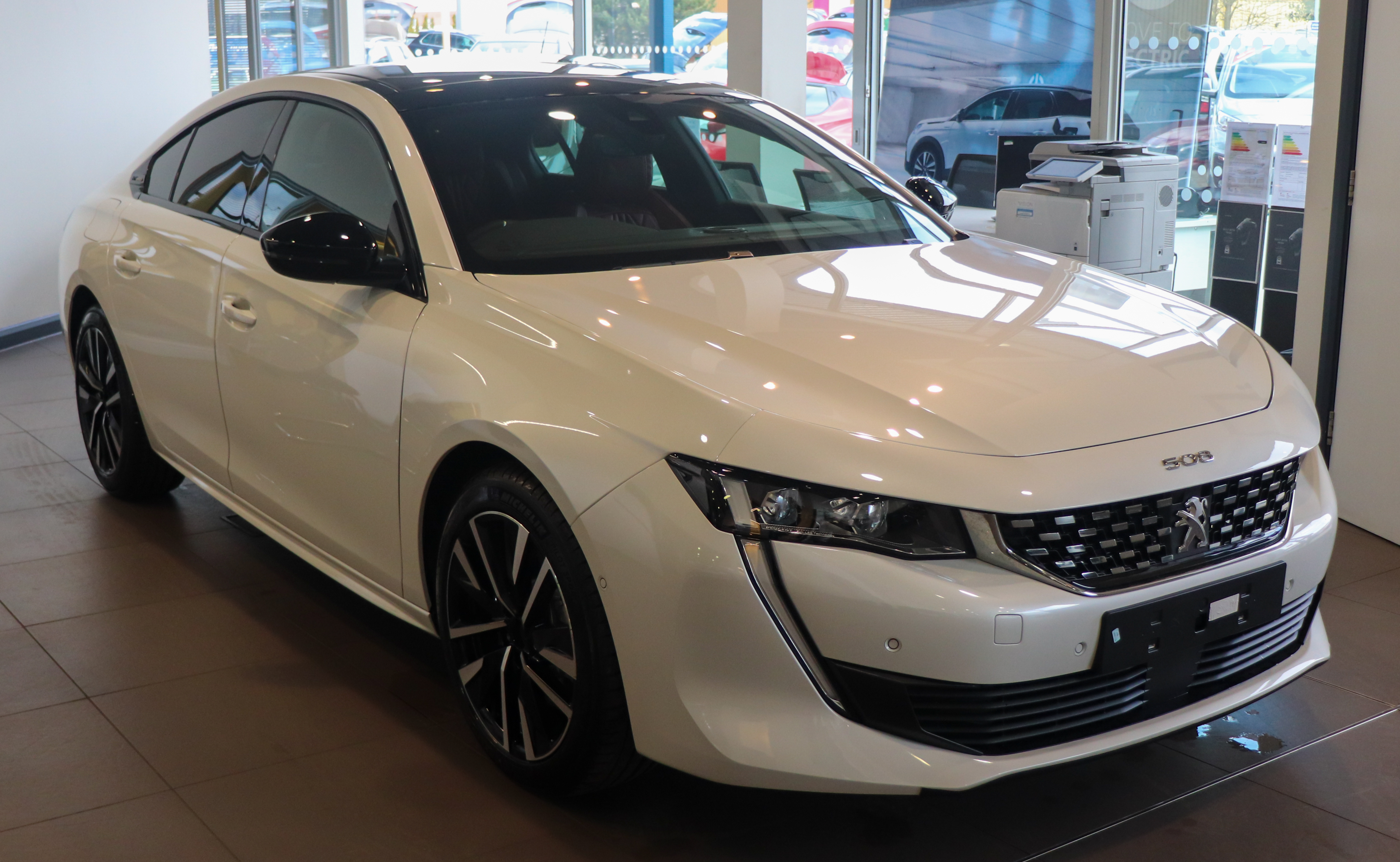 2020 Peugeot 508 GT Hybrid Taken in Leamington Spa